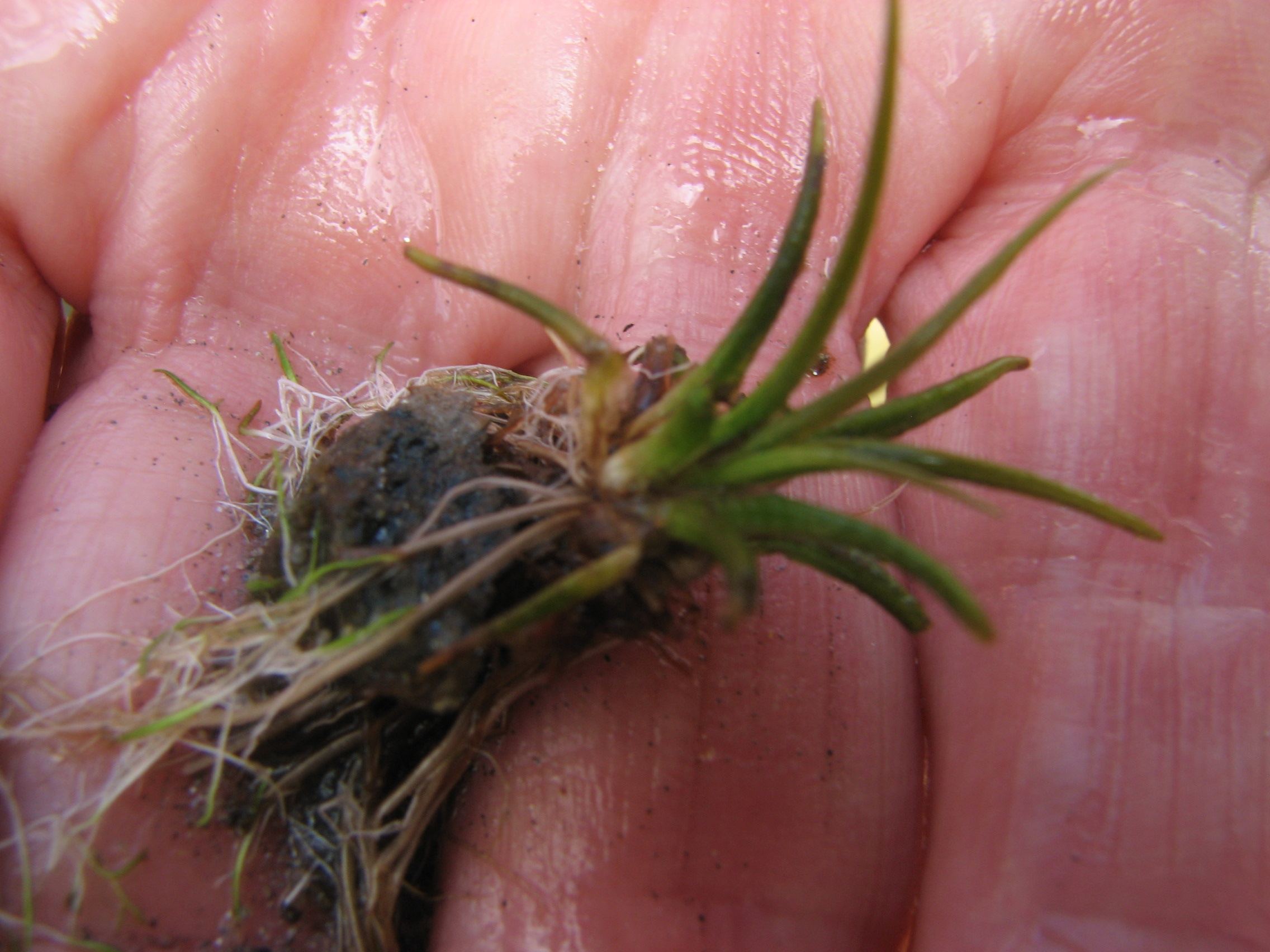 Green Mountain quillwort (Isoetes viridimontana) at its only known location, in Windham County, Vermont.